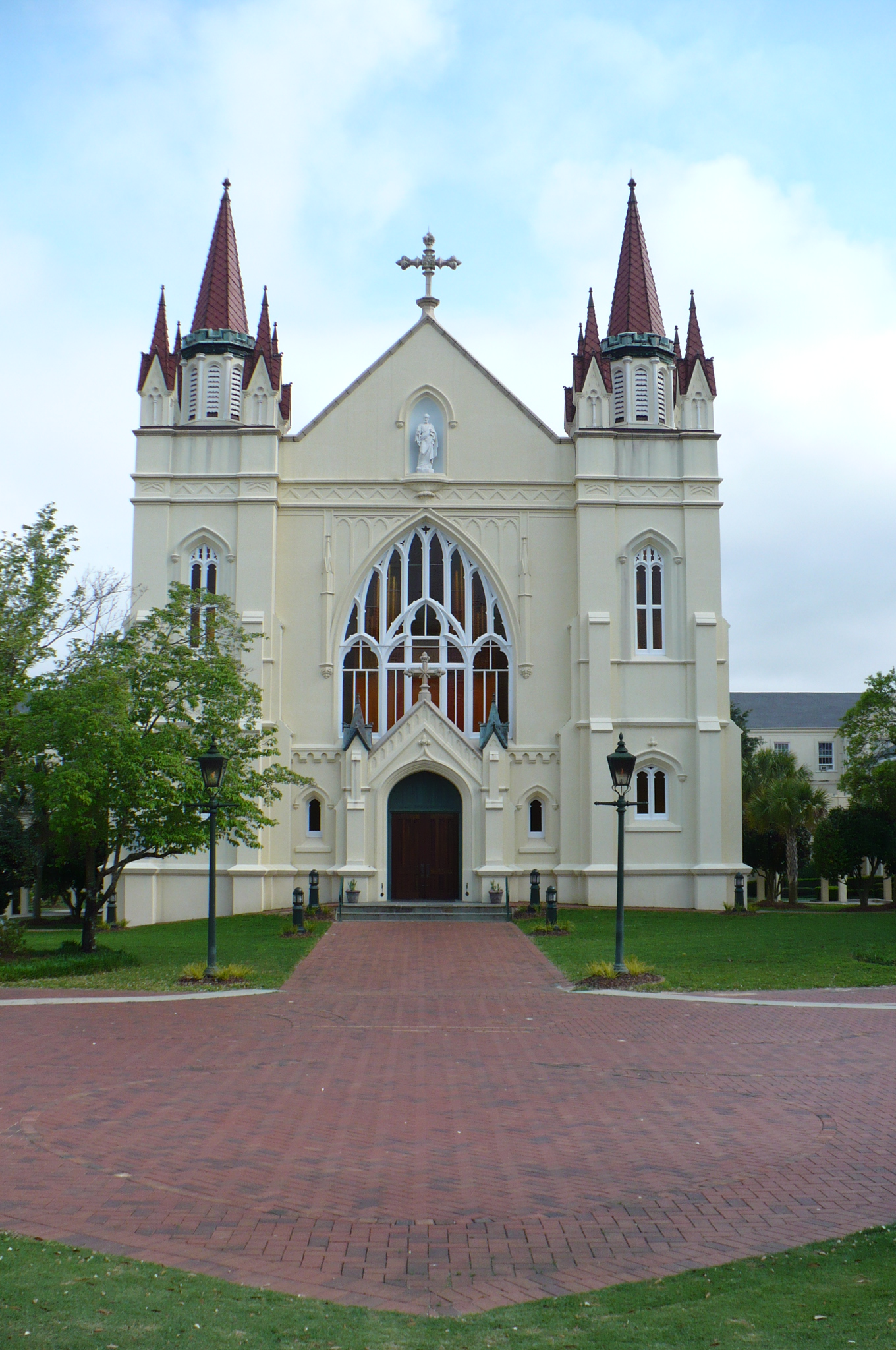 The Spring Hill College Quadrangle (St. Joseph's Chapel, c. 1909) in Mobile, Alabama.